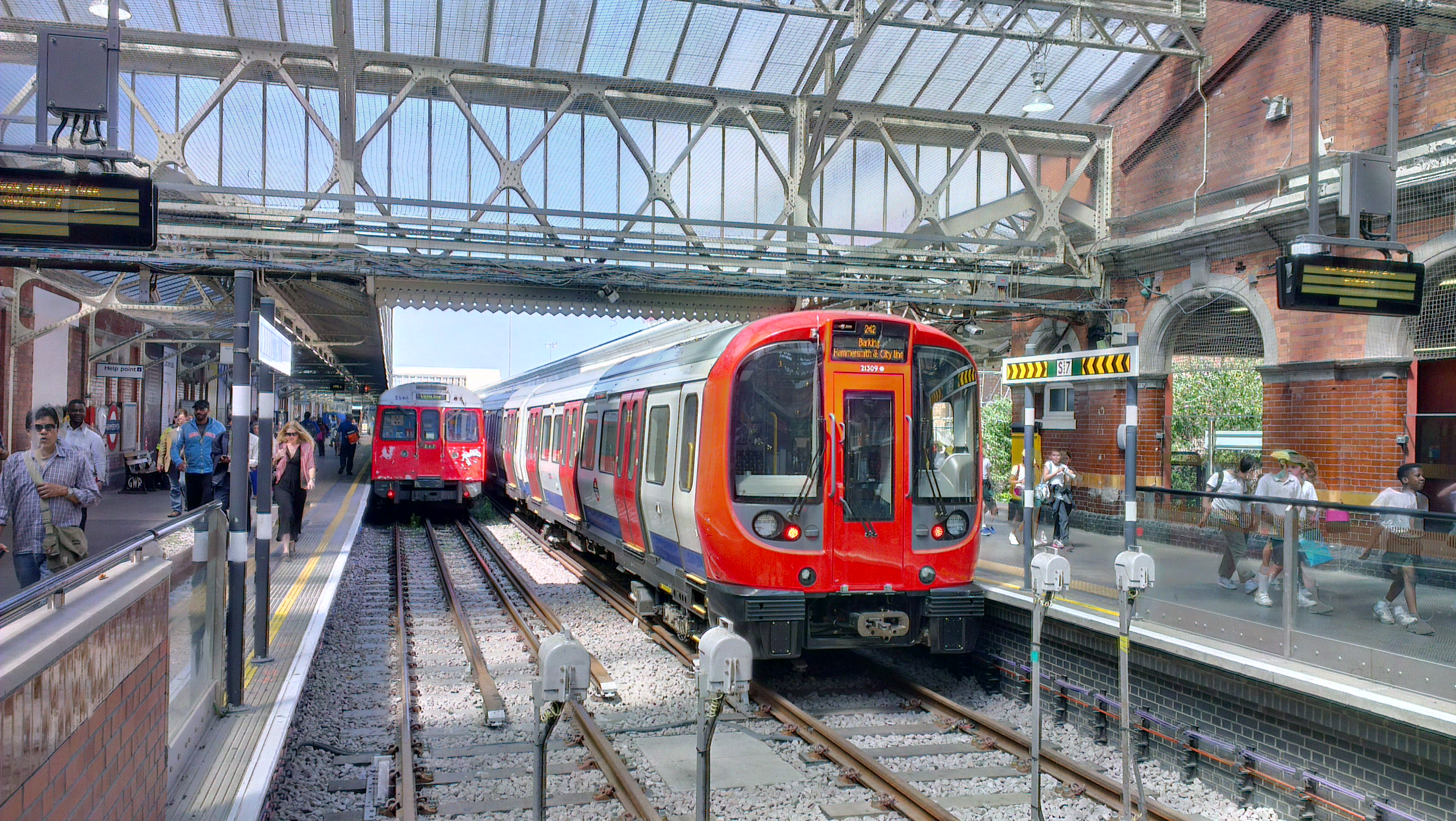 C stock train and new S7 stock train at Hammersmith Station, July 2013. Following the withdrawal of the A stock on the Metropolitan line in 2012, the C stock became the oldest stock in service on the London Underground. The S stock consists of the S8 stock and the S7 stock. The S8 stock was introduced in 2010 to replace the aging A Stock on the Metropolitan line, which reached 50 years of service in 2011 and at the time of its final withdrawal was the oldest stock in service on any rapid transit system in Europe. The S7 stock was introduced in 2012, making it the newest stock in service on the London Underground network. The S7 stock was ordered to replace the C stock on the Circle, District and Hammersmith and City lines, and the D stock on the District line. The C stock was completely replaced in 2014, and the S7 stock is to replace the D stock by 2016.